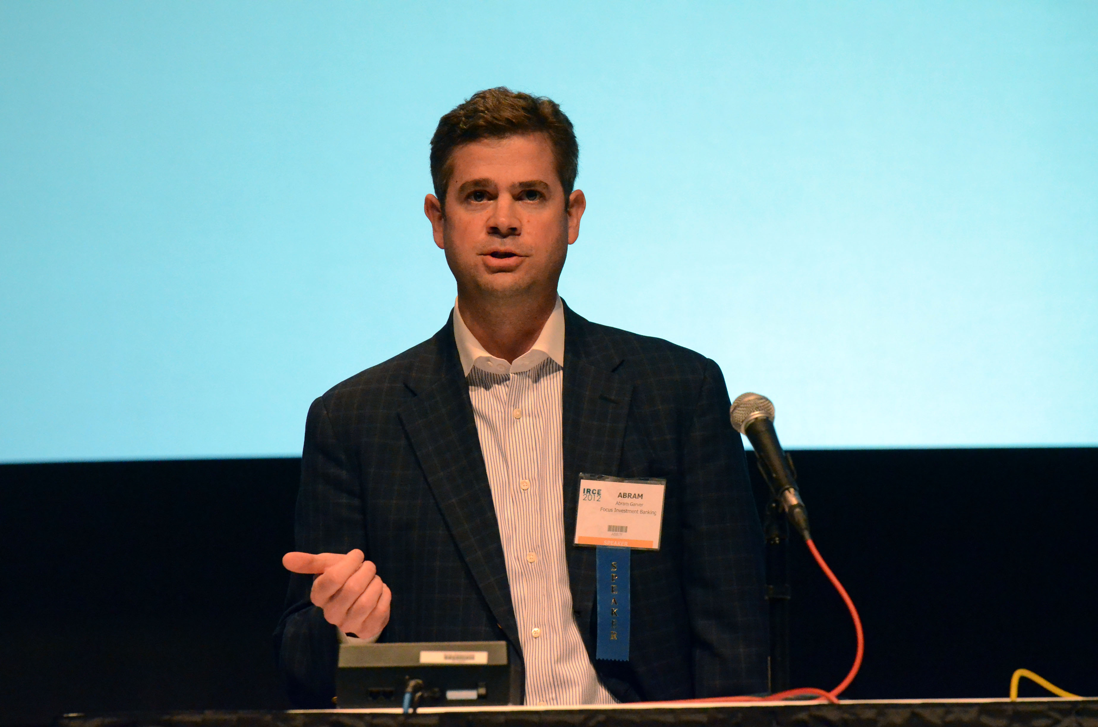 Abe Garver, an American M&A investment banker, presenting “Selling Your Company: Preparing For The Pre- And Post-Sale World” at the Internet Retailer Conference and Exhibition on June 5, 2012